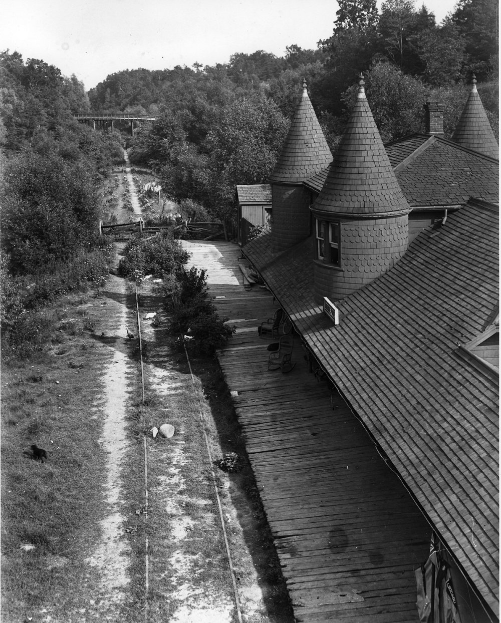 Moore Park station of the Toronto Belt Line Railway. The Heath Street Bridge can be seen in the distance.